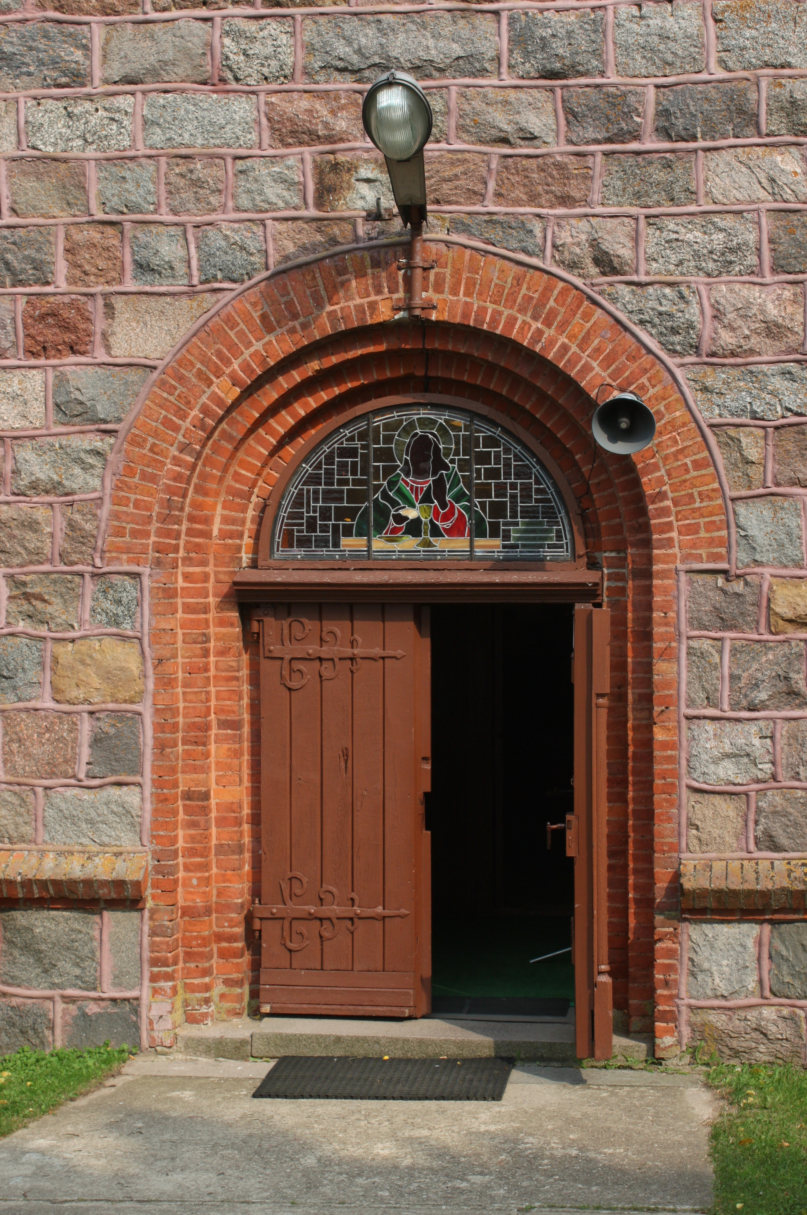 Saint John the Baptist church in Targowo.